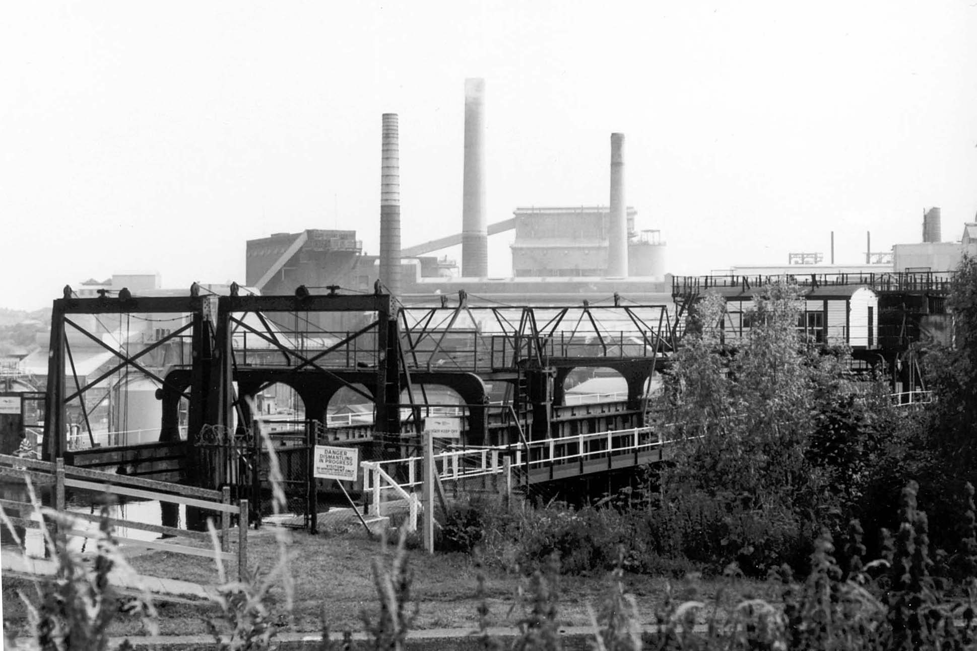 Anderton Boat Lift with ICI Winnington Works in background. Photo taken by self. 1992.